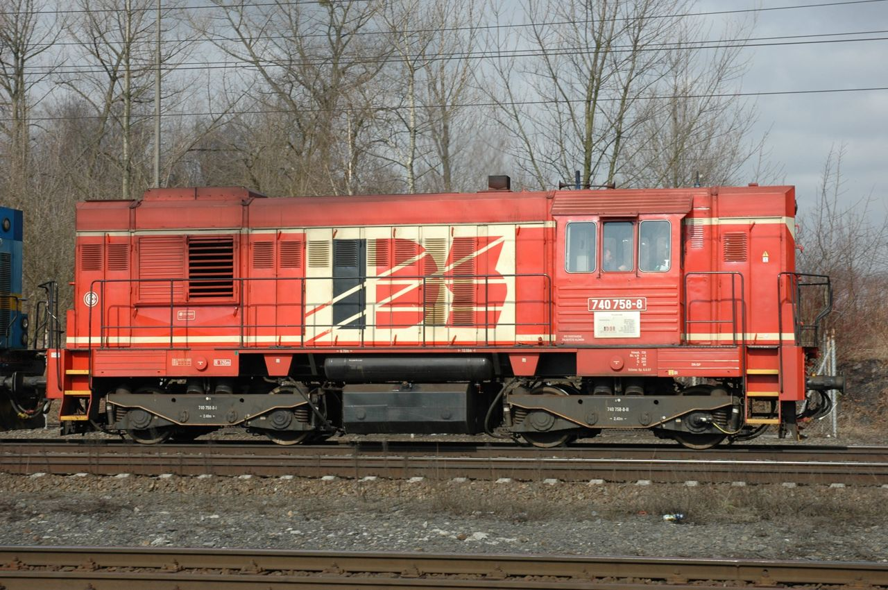 Locomotive 740.758 of IDS Cargo railway operator; between stations Ostrava hlavní nádraží and Bohumín, Czech Republic